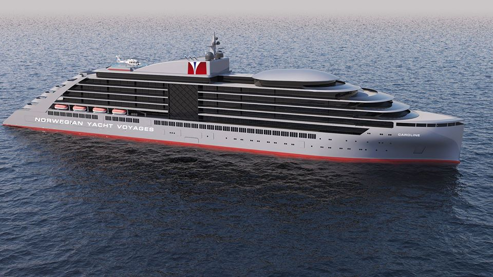 Rendering of Norwegian Yacht Voyages New Building MY Caroline